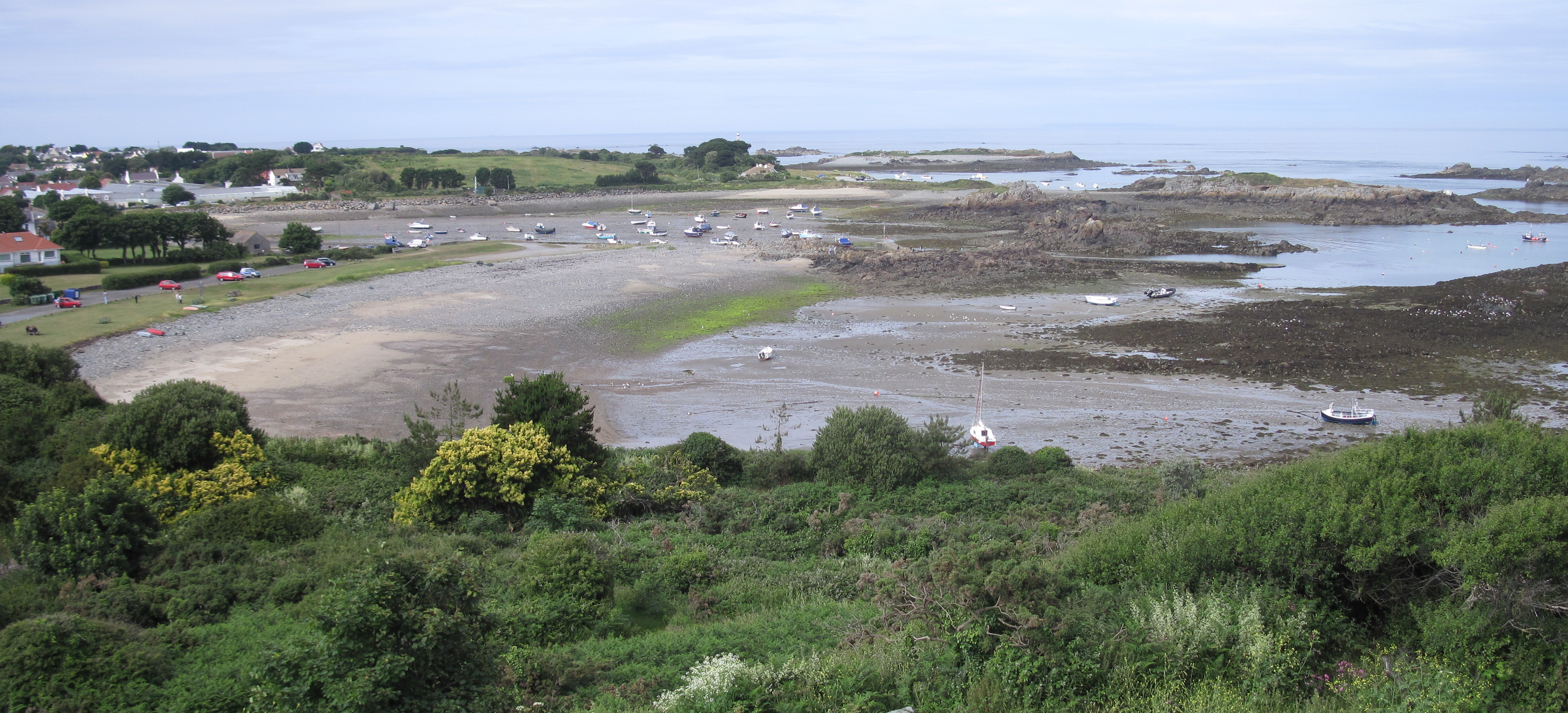 Guernsey, 2 July 2010